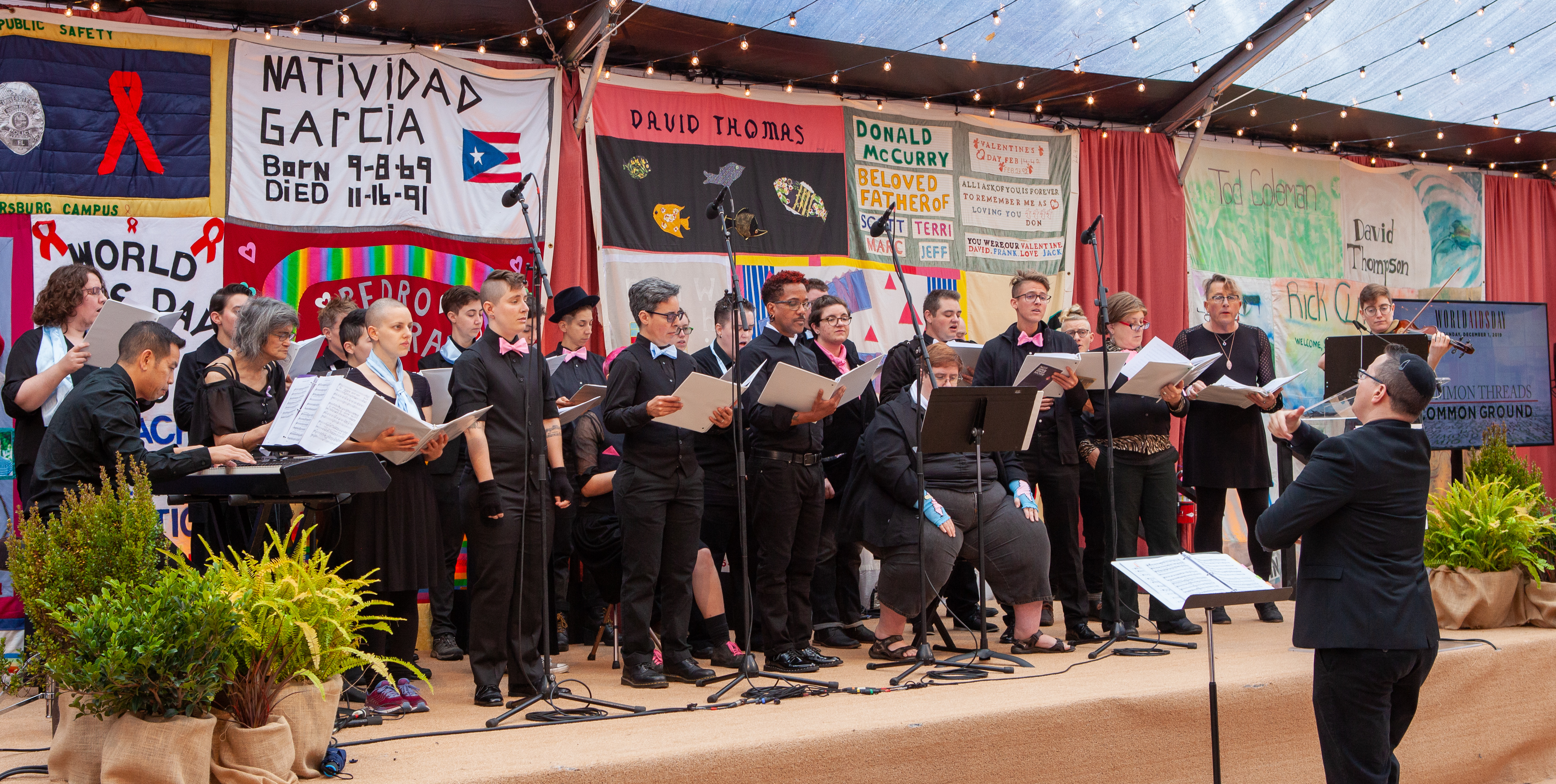 Reuben Zellman conducts the New Voices Bay Area TIGQ (Transgender/Intersex/Genderqueer) chorus at the National AIDS Memorial on World AIDS Day 2019.